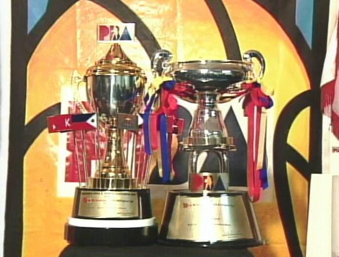 The PBA All-Filipino Cup (right) together with the FVR Centennial trophy (left)